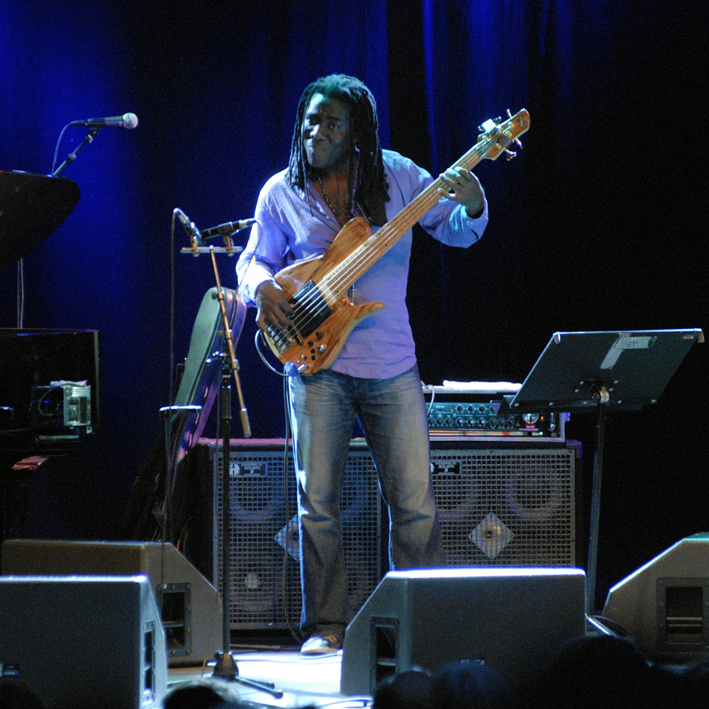 Richard Bona playing at Stockholm JazzFest09 Fodera Imperial Series